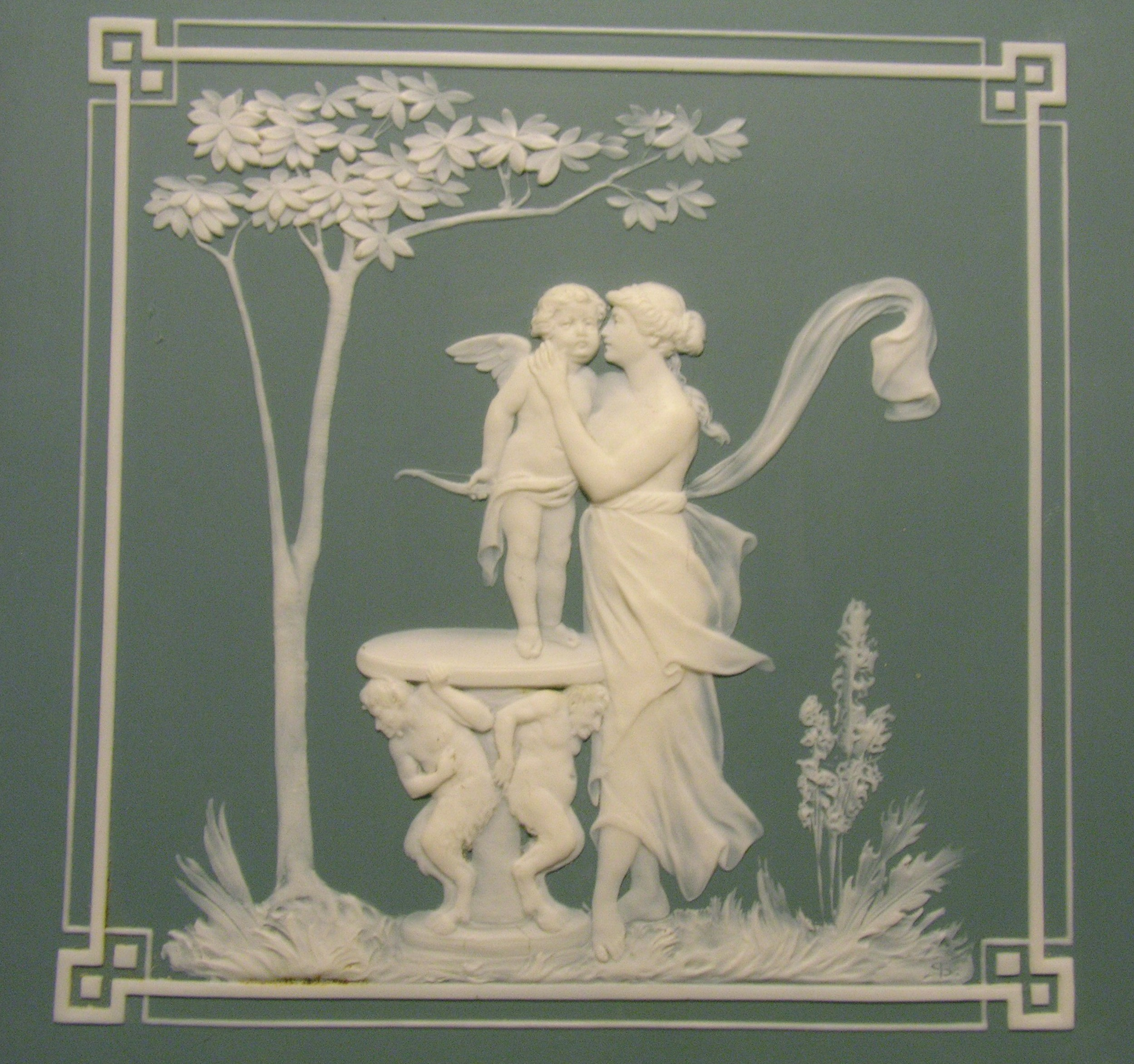 Phanolith plaque. Design and realization by Jean-Baptiste Stahl, Mettlach, Saar, Germany.